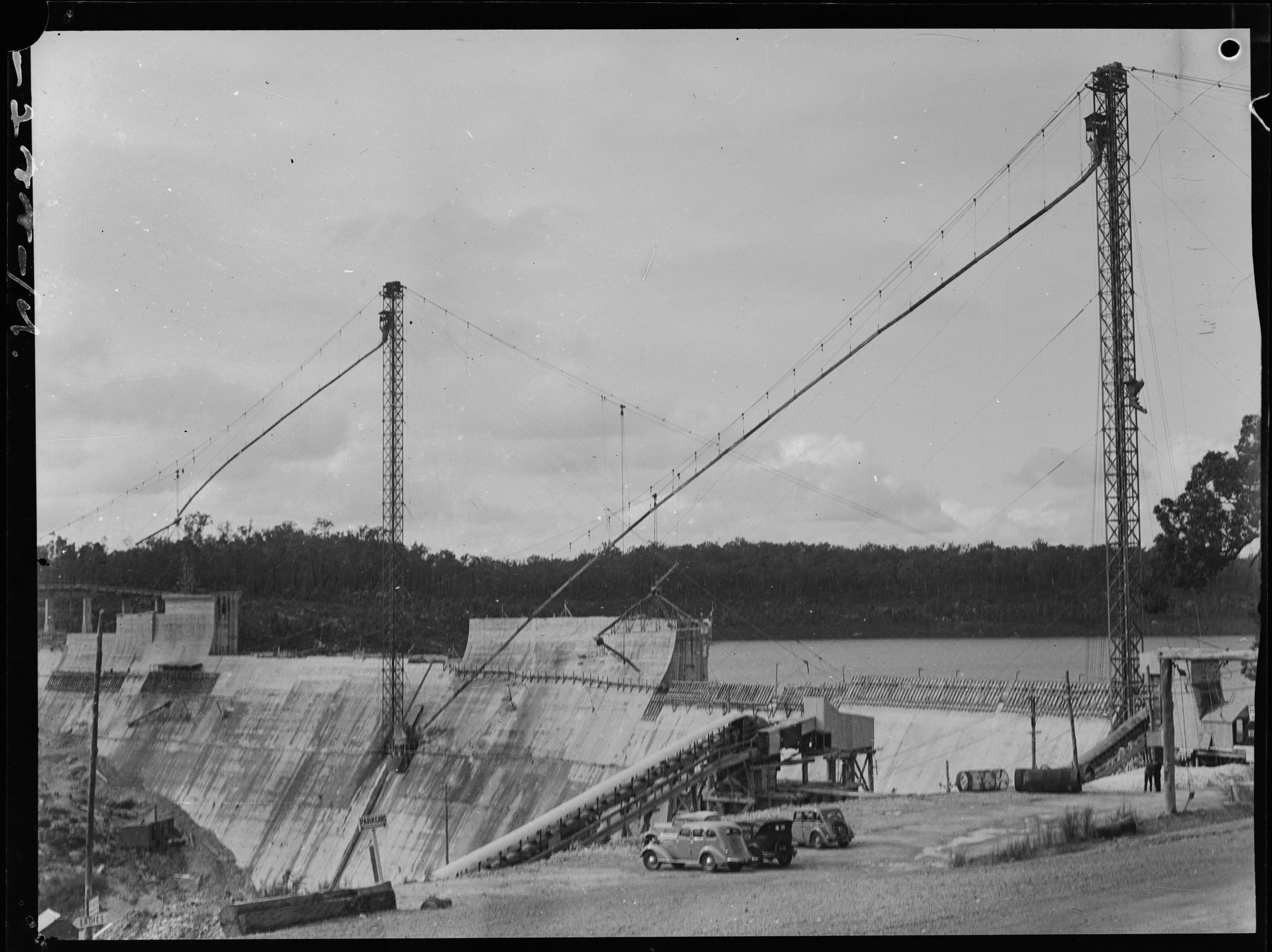 Canning Dam, construction of dam wall, 1939